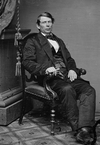 Ransom Halloway, Congressman from New York.